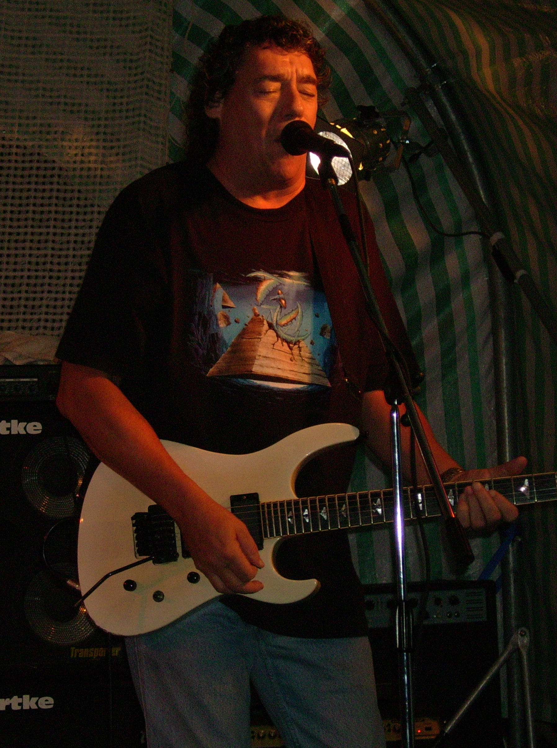 Dennis Stratton, at The Bell Bash, Wendens Ambo, 2006.